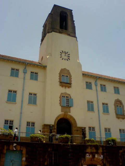 Clock tower of the "Main Building" — on the Makerere University campus, in central Kampala.